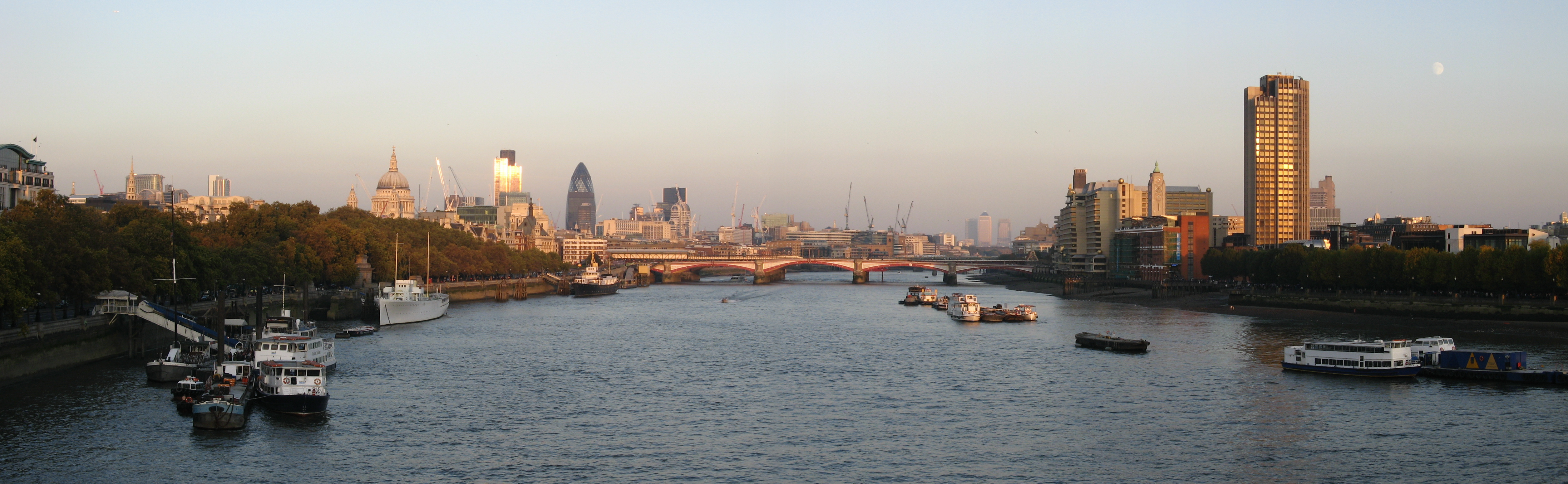 View eastward from Waterloo Bridge, London, toward Blackfriars Bridge.